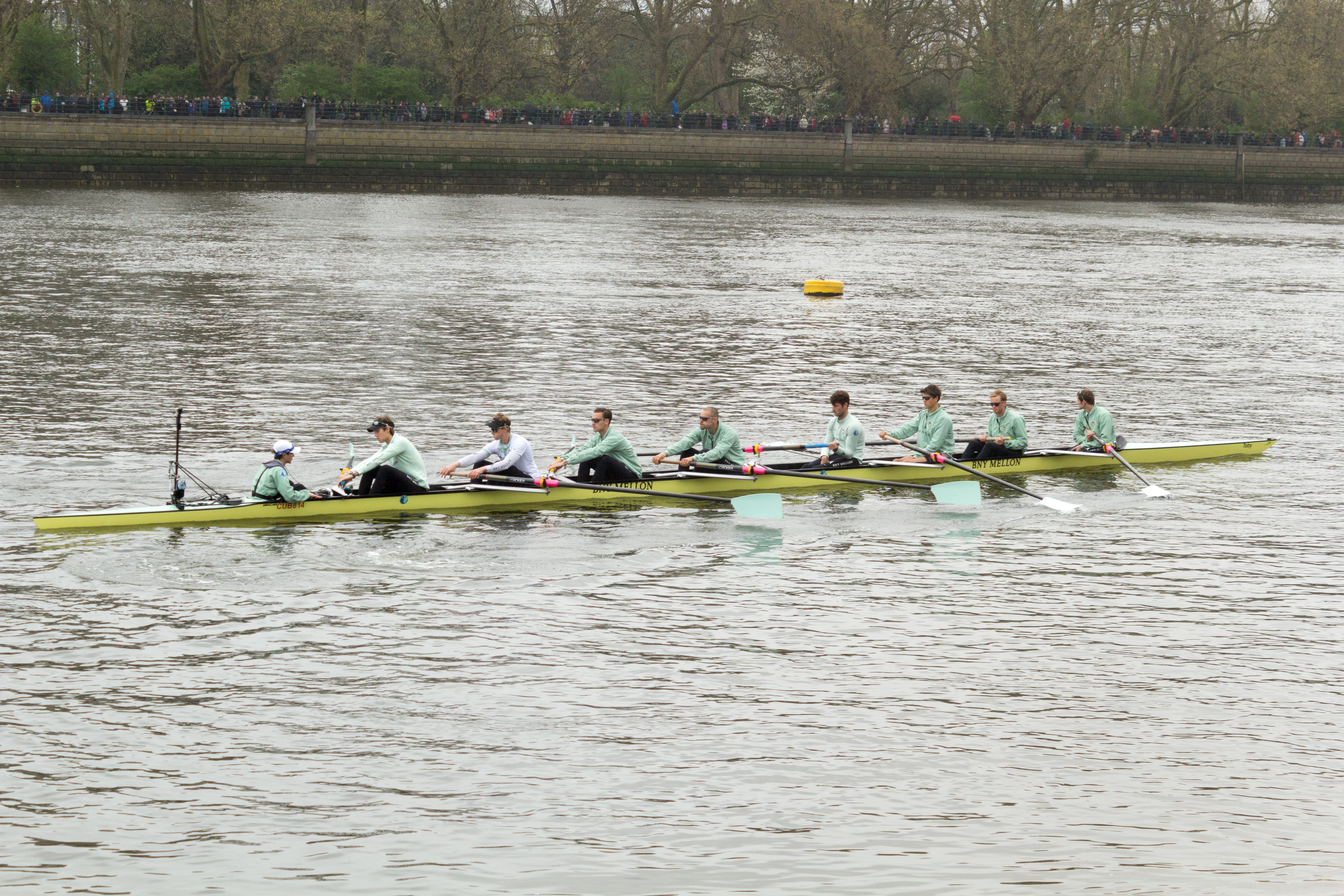 The BNY Mellon Boat Race 2014 - Main Race - Cambridge.